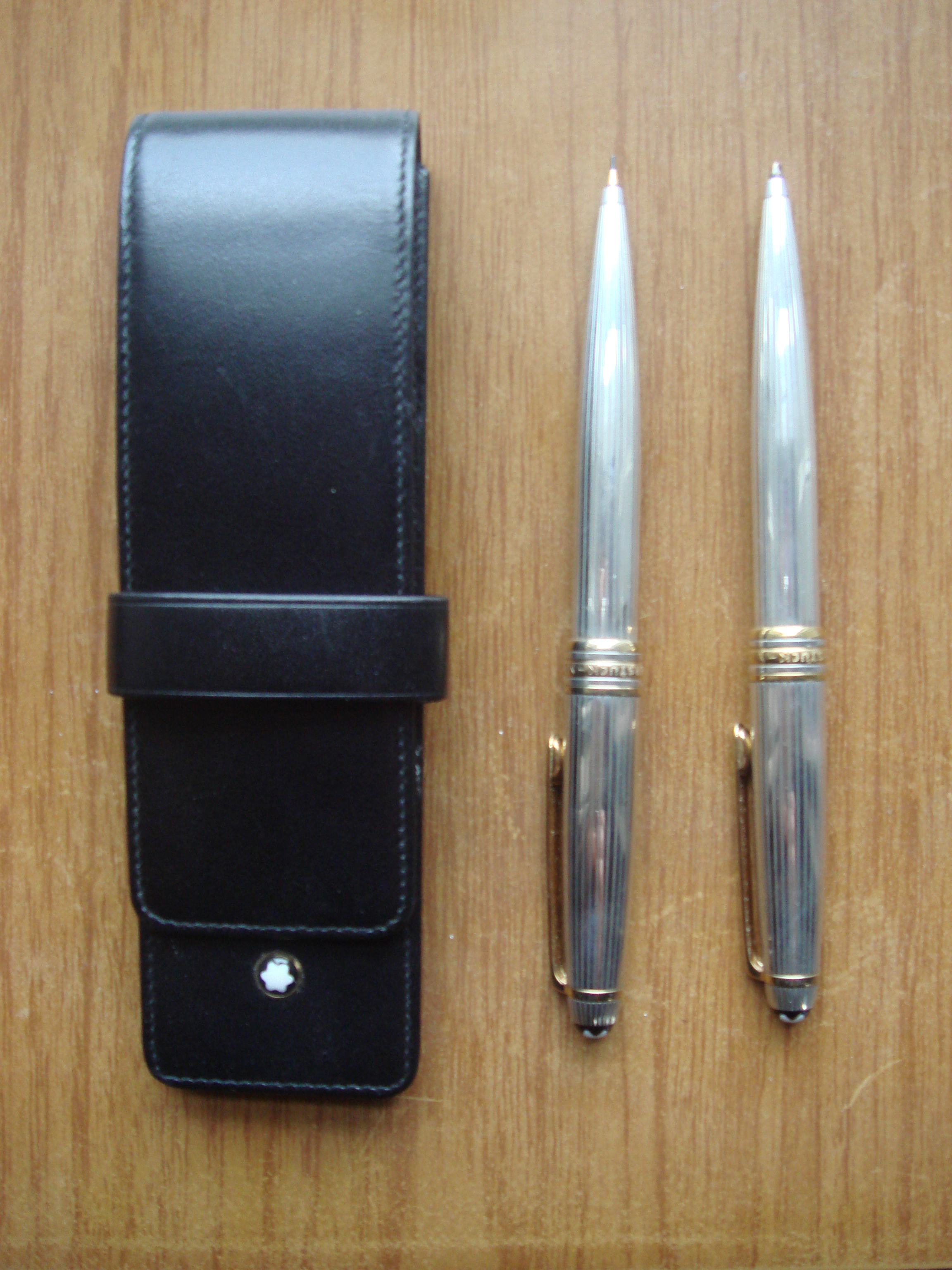 Montblanc Sterling Silver biro and pencil with Montblanc leather case.